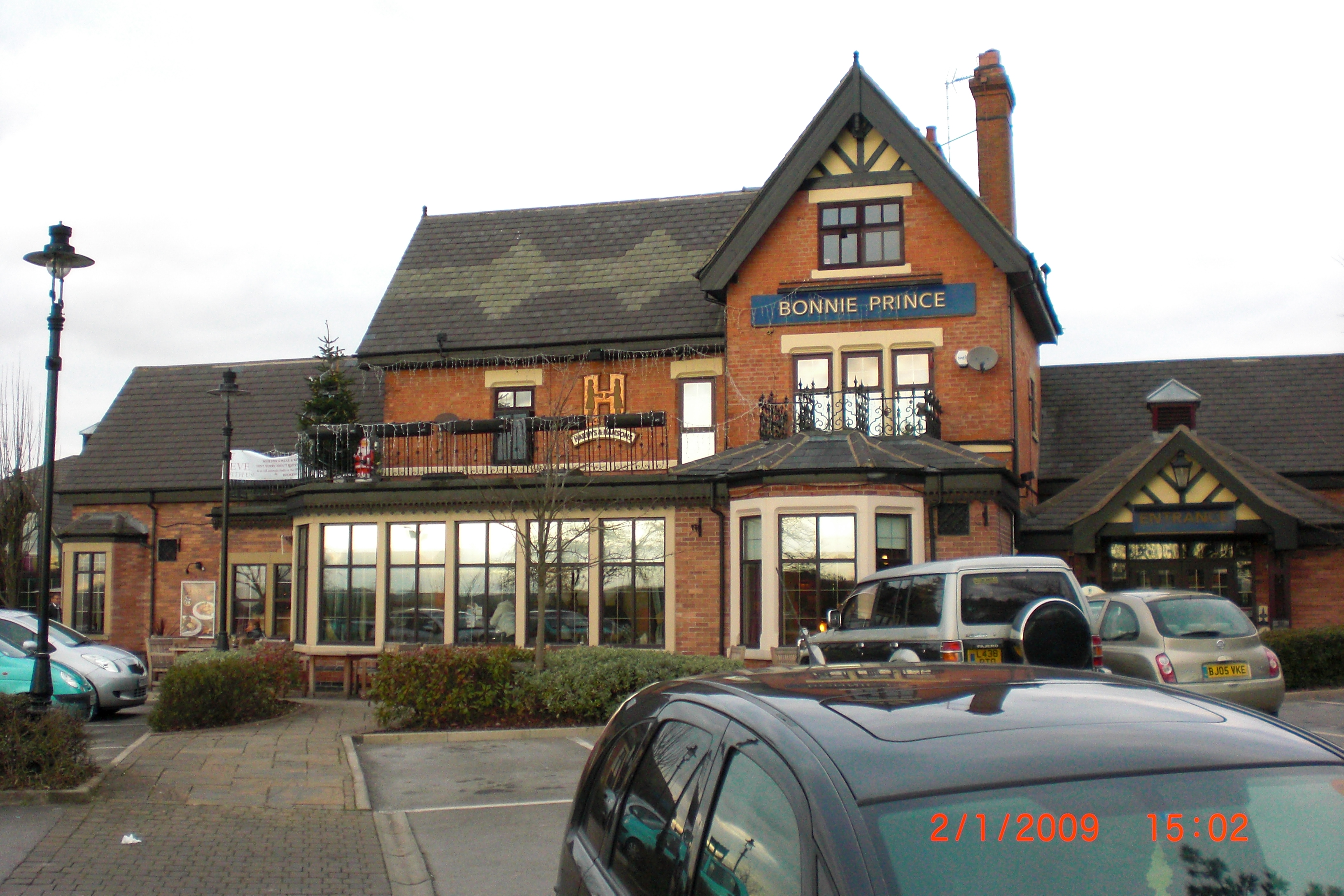 The Bonnie Prince public house, Chellaston The Bonnie Prince Public House is in fact about half a mile from the site where Bonnie Price Charlie turned around. There is a stone monument in the grounds of the Crew&Haper Public House to mark the location. This situated on the backs of the river Trent at the end of Swarkstone bridge.